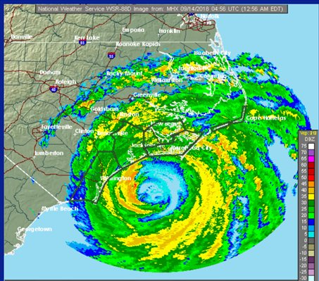 Radar image of Hurricane Florence a few hours before landfall on September 14, 2018